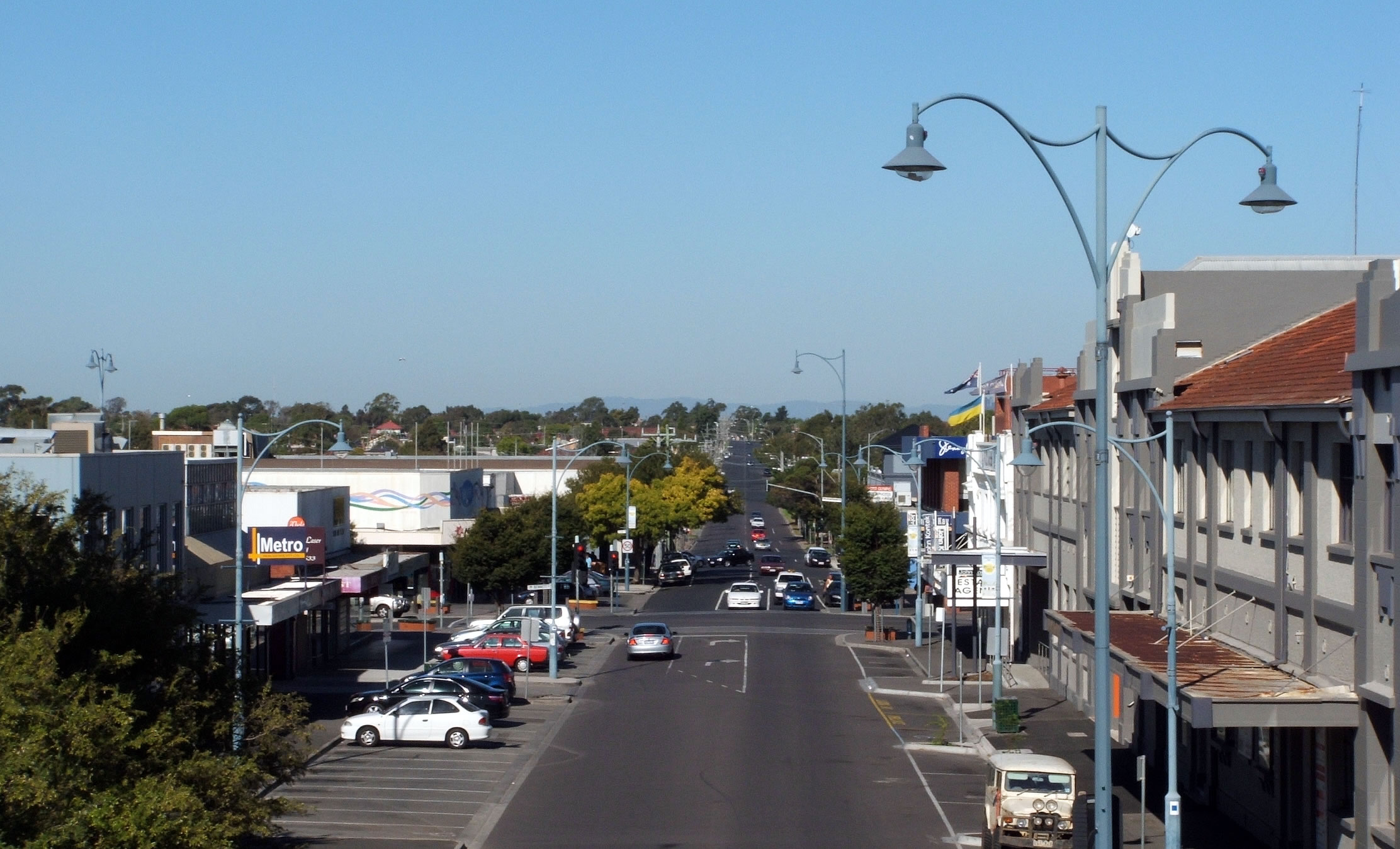 Devonshire Road in the central business district of Sunshine, Victoria, Australia. Taken from footbridge over railway.